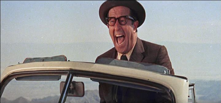 Phil Silvers as Otto Meyer in It's a Mad, Mad, Mad, Mad World (1963)